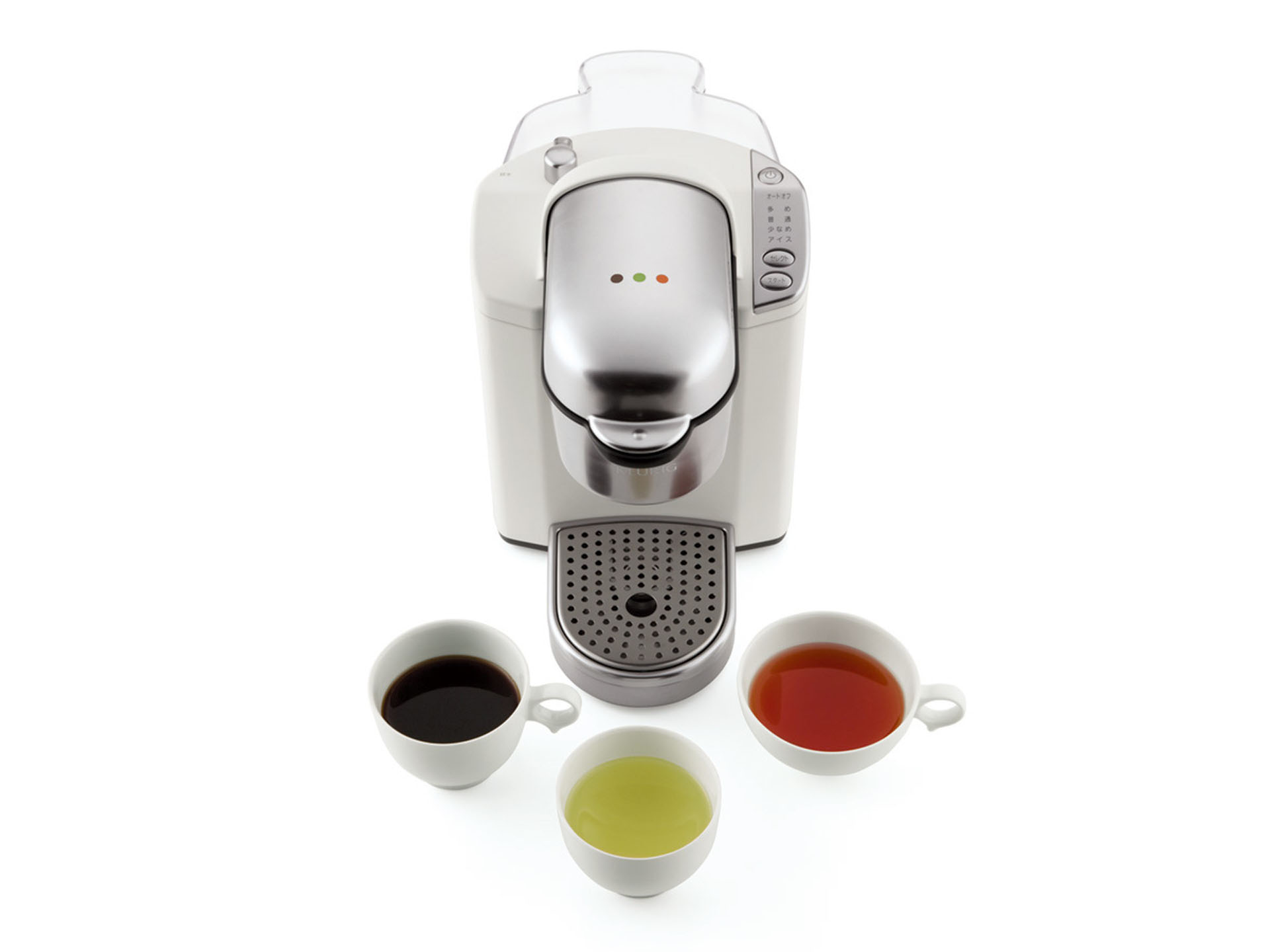 Works of KITA Toshiyuki 016-2014